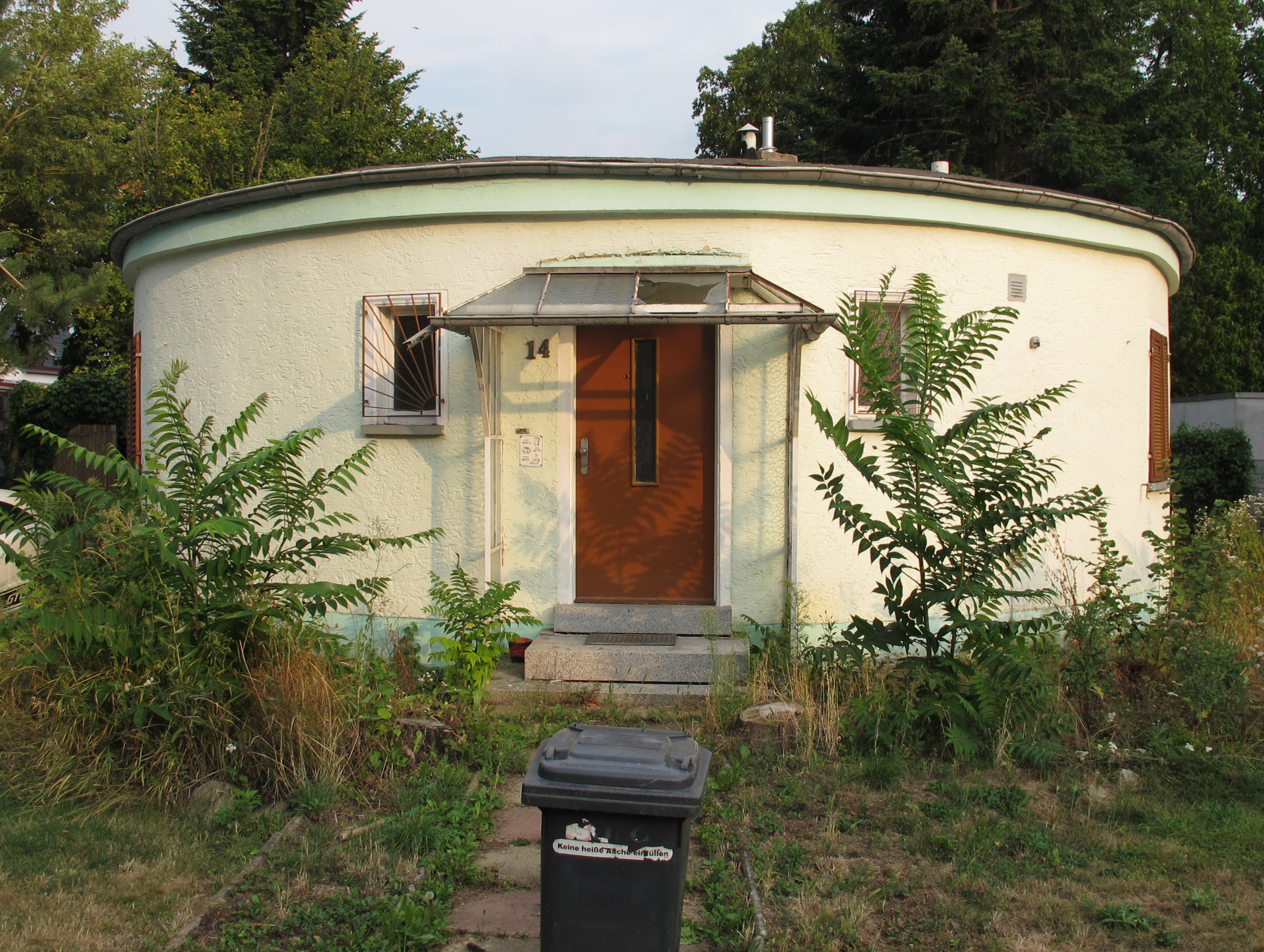 House with round floor plan in Frankfurt Bonames (2016 demolished)